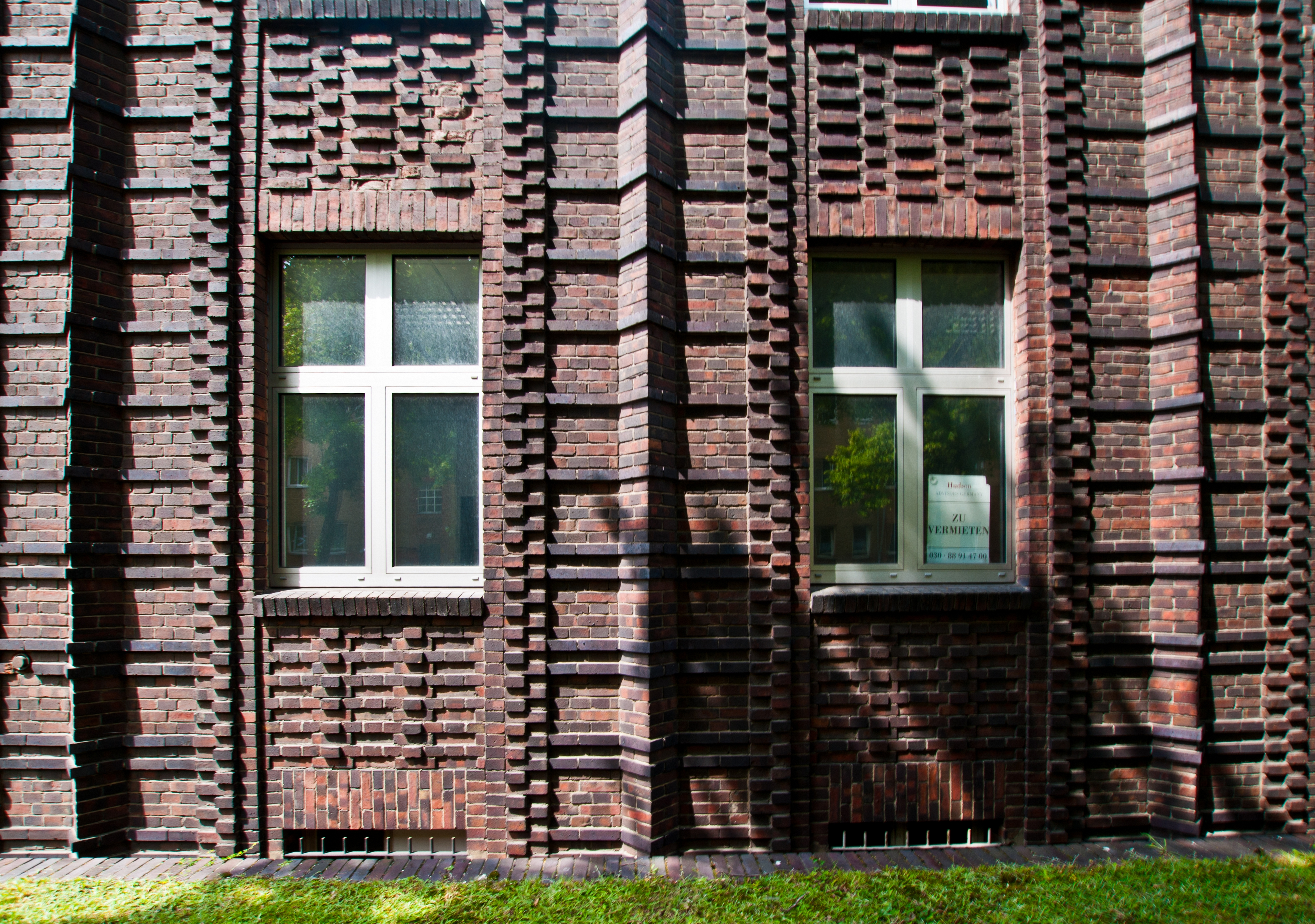 "Alboinkontor", Alboinstraße street in Berlin-Schöneberg